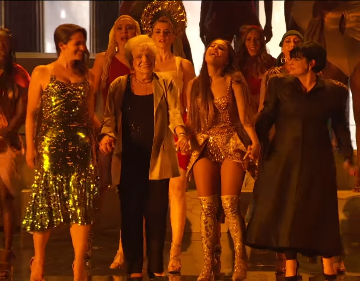 Ariana Grande performs "God Is A Woman" at the 2018 Video Music Awards in New York City.